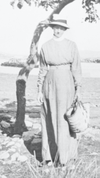 Ellen Barron (1875-1951), member of the Australian Army Nursing Service in WWI, later trained nurses in ante-natal care